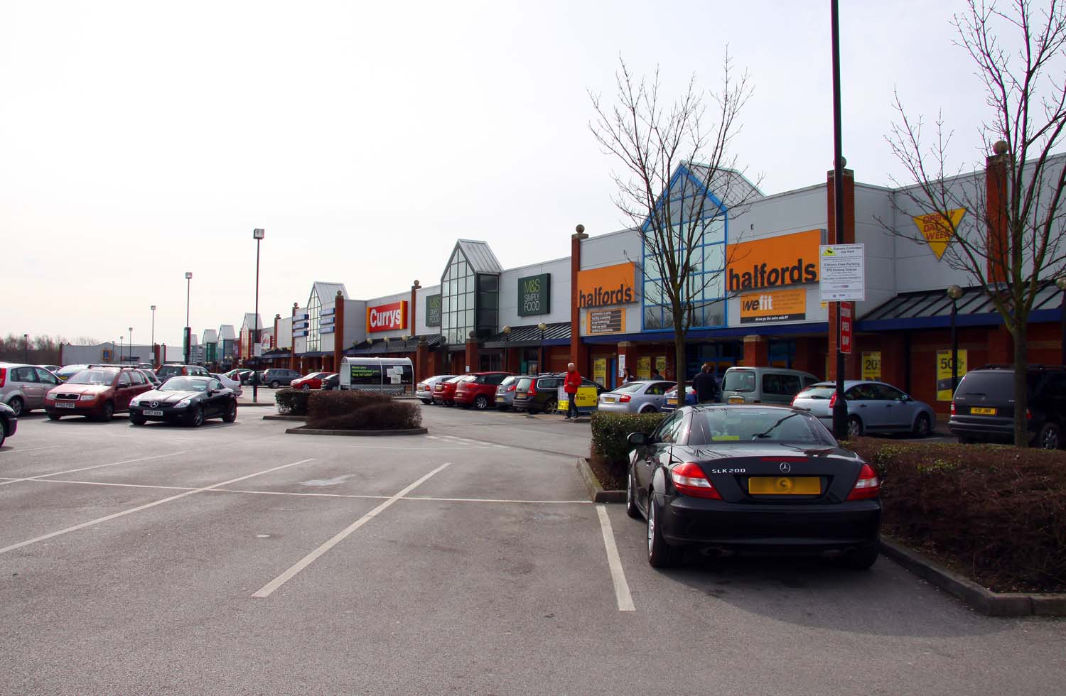 Grand Junction Retail Park in Crewe